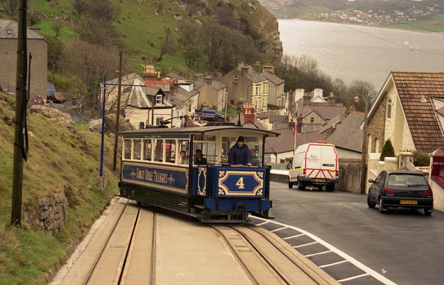 Great Orme Tramway, Llandudno - lower section turnout. The Great Orme Tramway is in reality a two-section funicular. The lower section which, as shown, runs in the street, is operated using cars 4 and 5, which pass at the loop shown above - the photograph of car 4 ascending was taken from the front of the descending car 5. The upper section of the tramway runs in open track using cars 6 and 7. Compare to 257718 taken 30 years prior.